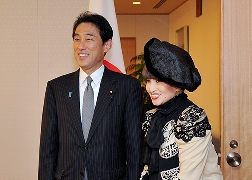 Tetsuko Kuroyanagi, Goodwill Ambassador of the United Nations Childrens' Fund, met Fumio Kishida, Minister for Foreign Affairs, at the Ministry of Foreign Affairs in Tōkyō Metropolis on September 12, 2013.